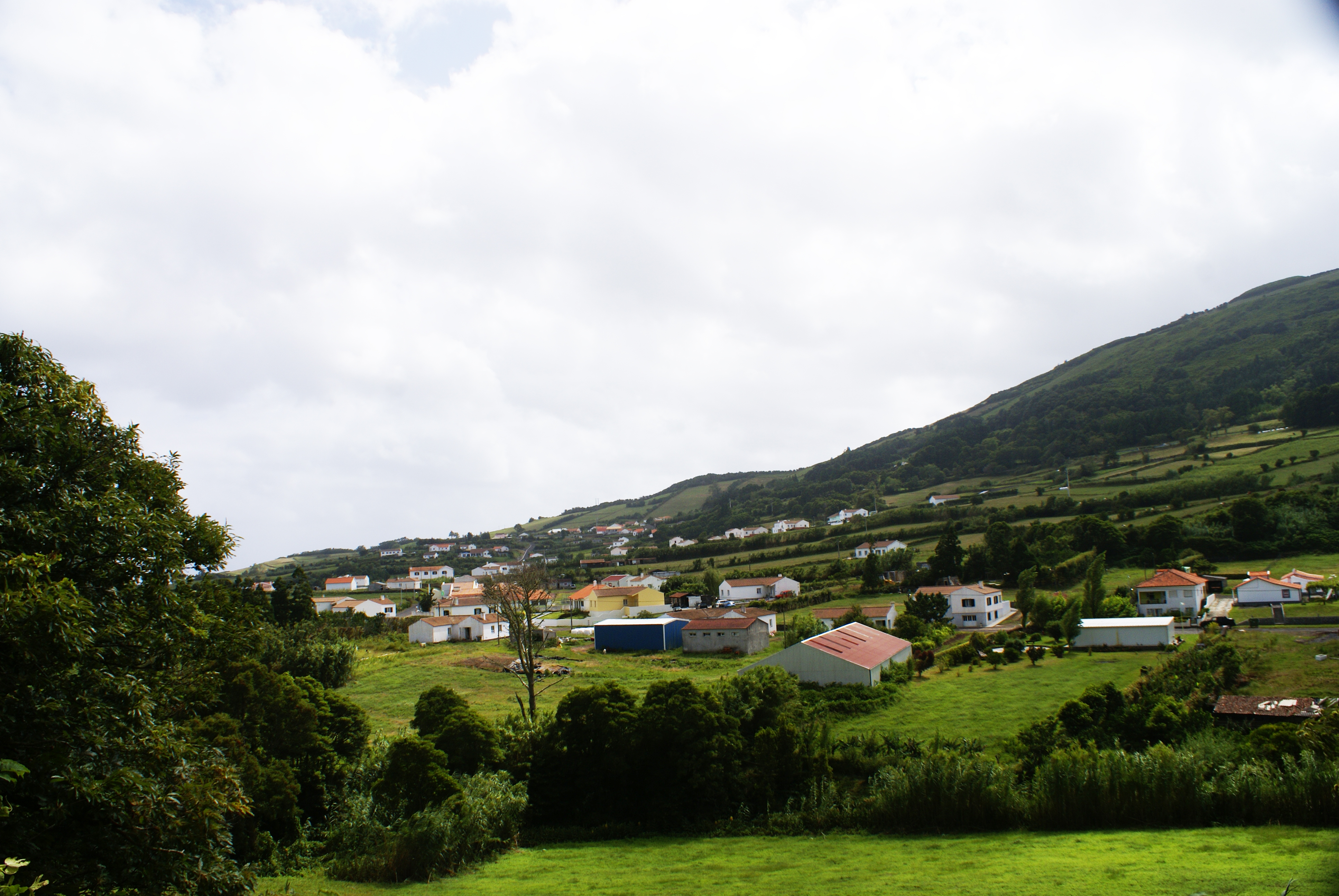 Ribeirinha, concelho da Horta, ilha do Faial, Açores, Portugal